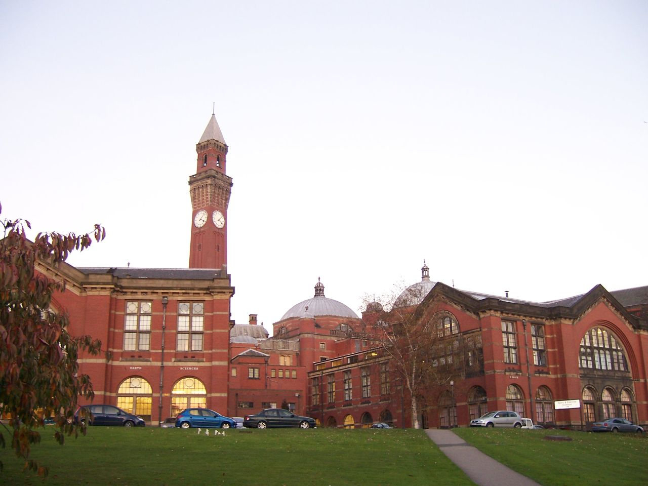 University of Birmingham - Aston Webb